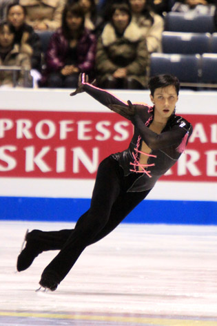 Johnny Weir at the 2009-2010 Grand Prix of Figure Skating Final.